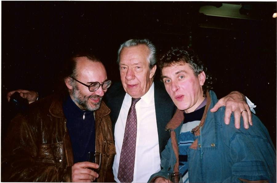 Marc Sleen (center) at the Belgisch stripmuseum, left: Jan Bucquoy, right: Pirana